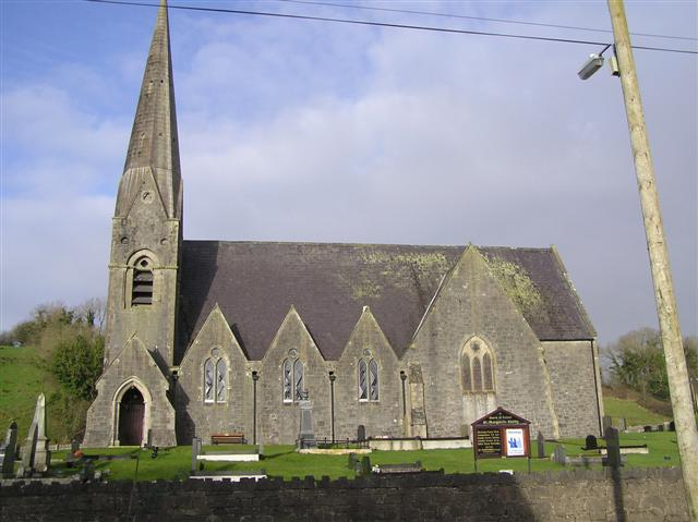 St Margaret's Church of Ireland, Clabby Located close to the centre of the hamlet